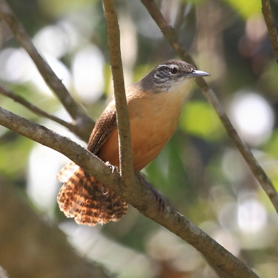 Buff-breasted Wren at Boa Esperança do Sul - SP - Brazil